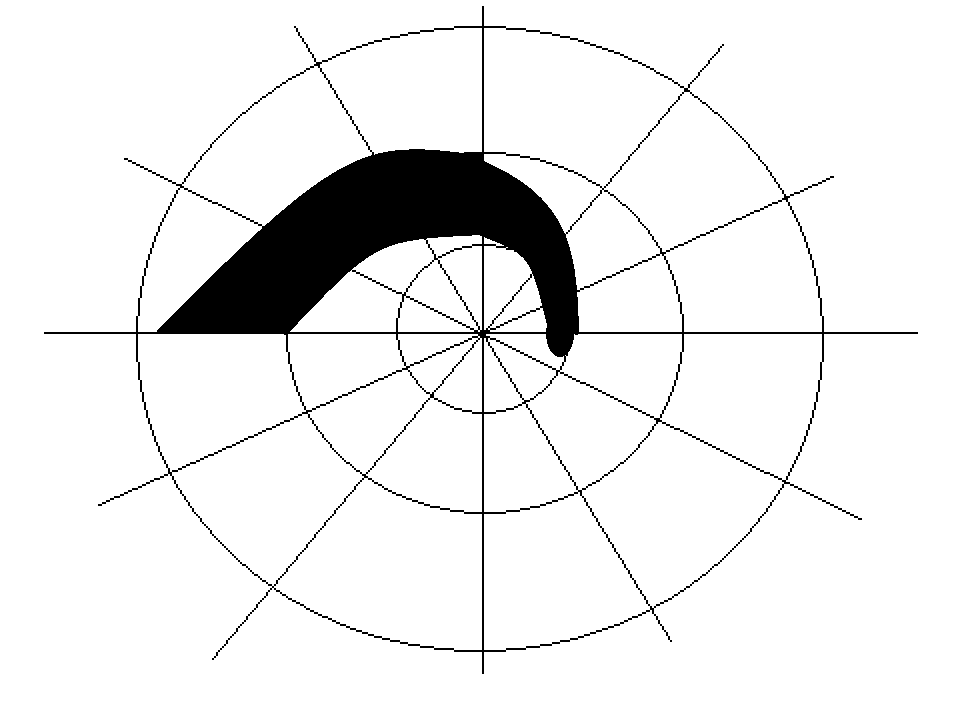 Goldmann visual field record showing a superior arcuate scotoma often seen with glaucoma